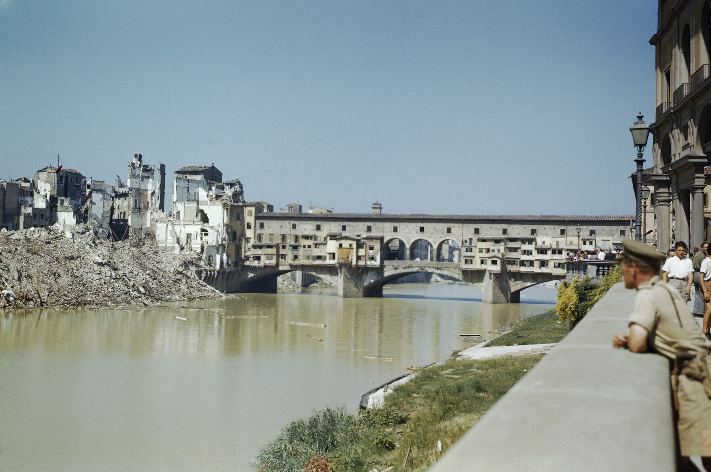 The Ponte Vecchio bridge in Florence, damaged by the retreating Germans who blew up buildings at each, 14 August 1944. View of the damage to the Ponte Vecchio from the east. The German forces destroyed all of the bridges over the River Arno with the exception of the Ponte Vecchio before evacuating Florence on 11 August 1944. The Ponte Vecchio was blocked by demolishing the houses at each end and mining the bridge.